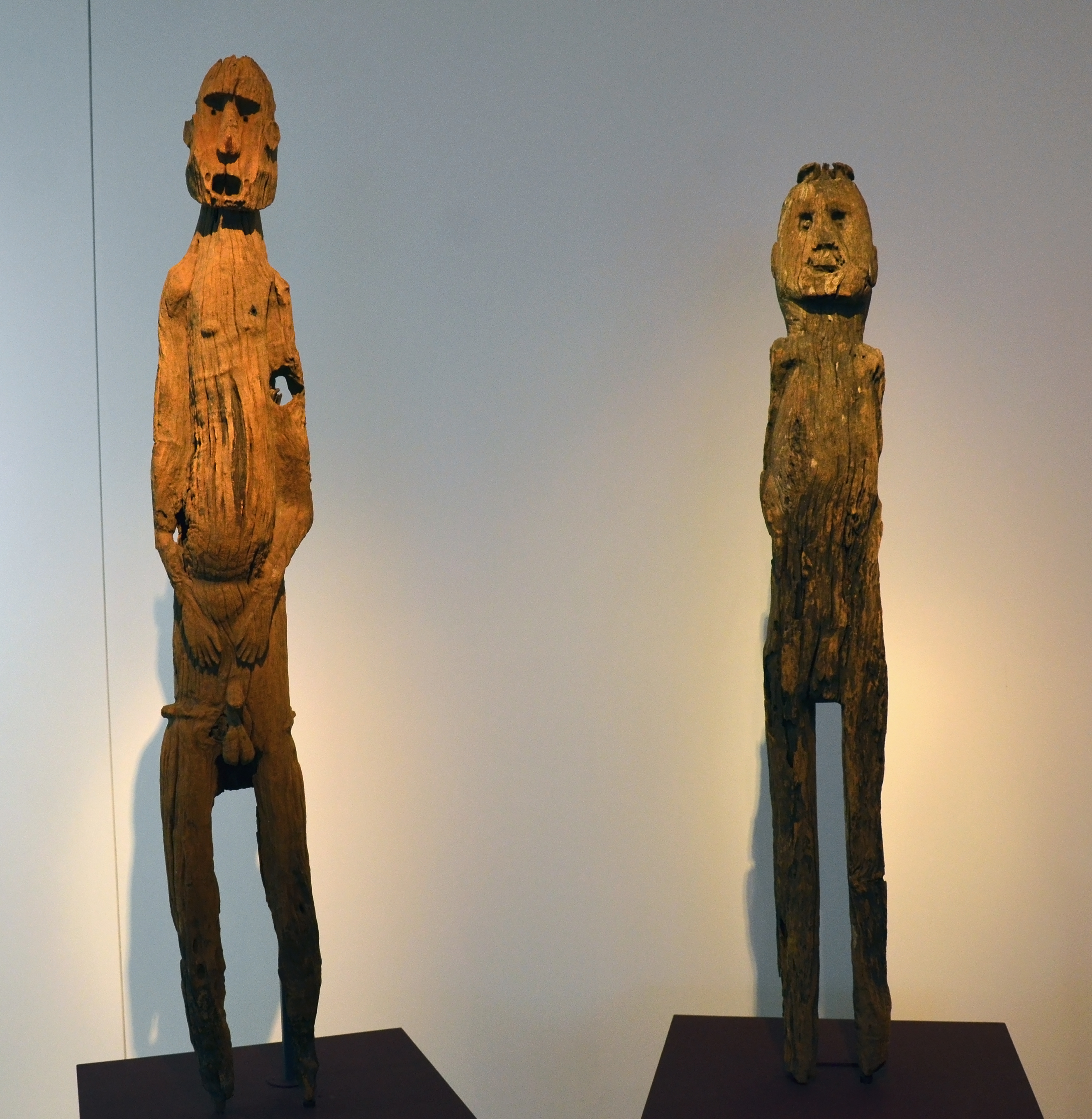 Pair of ancestor figures, wooden statues, from Baguia ( Oriental Timor ). Museum der Kulturen, Basel.